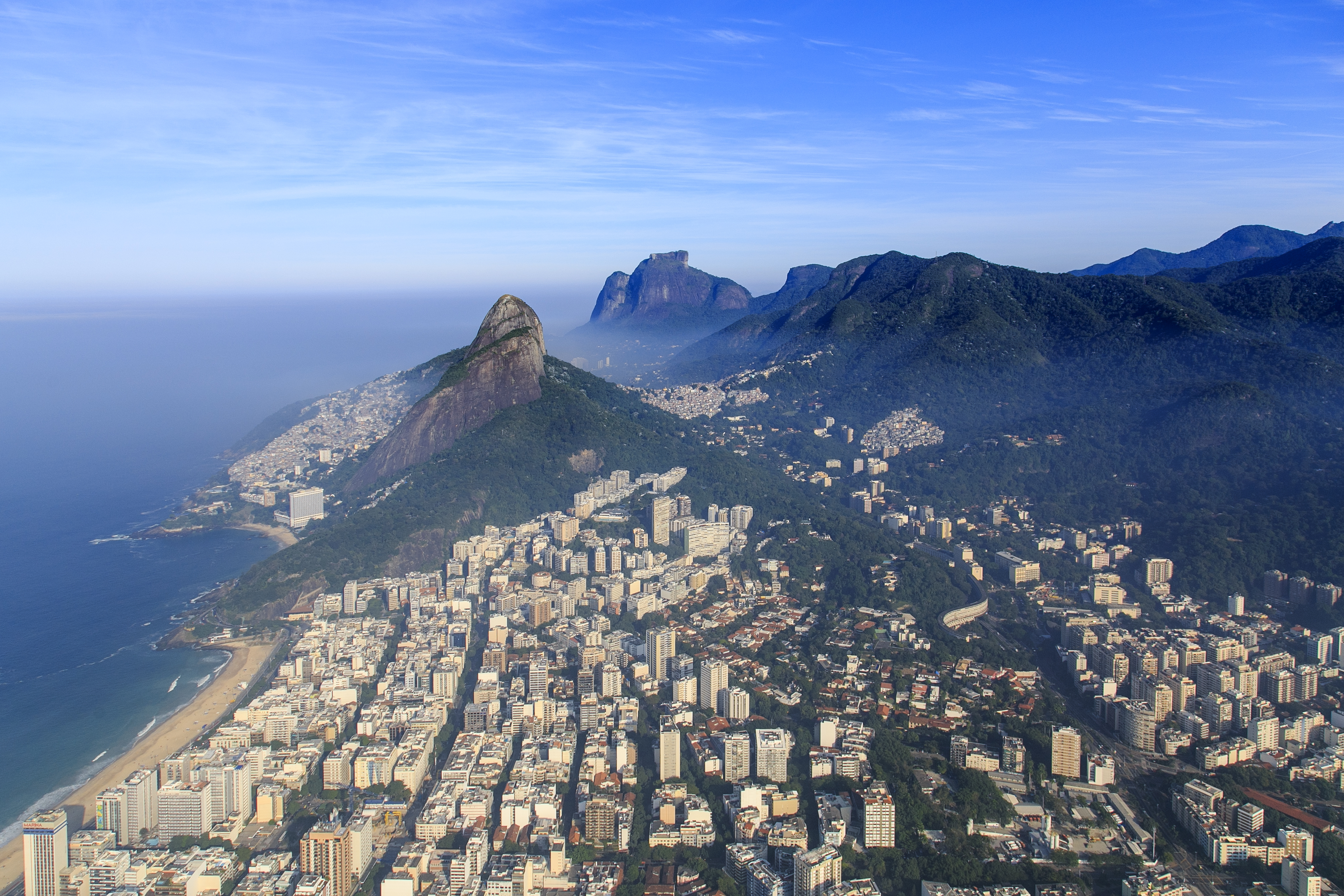 aerial view of leblon rio de janeiro 2014 rocinha vidigal